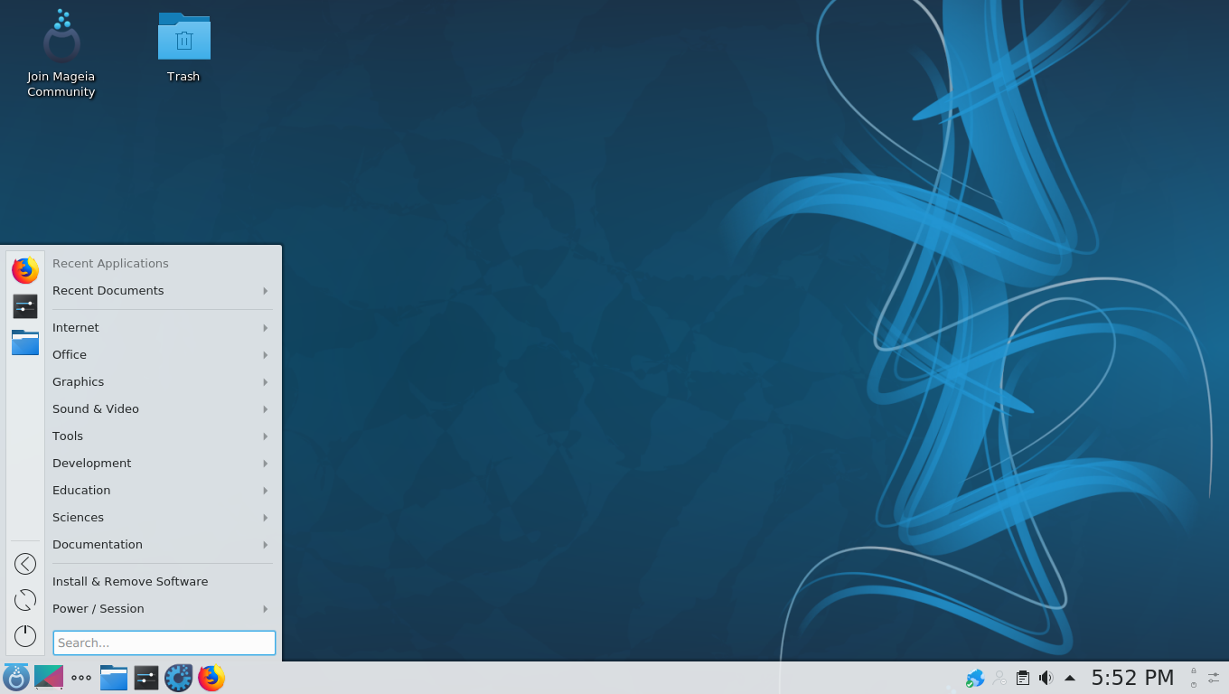 Screenshot of Mageia 7 KDE Plasma in English.